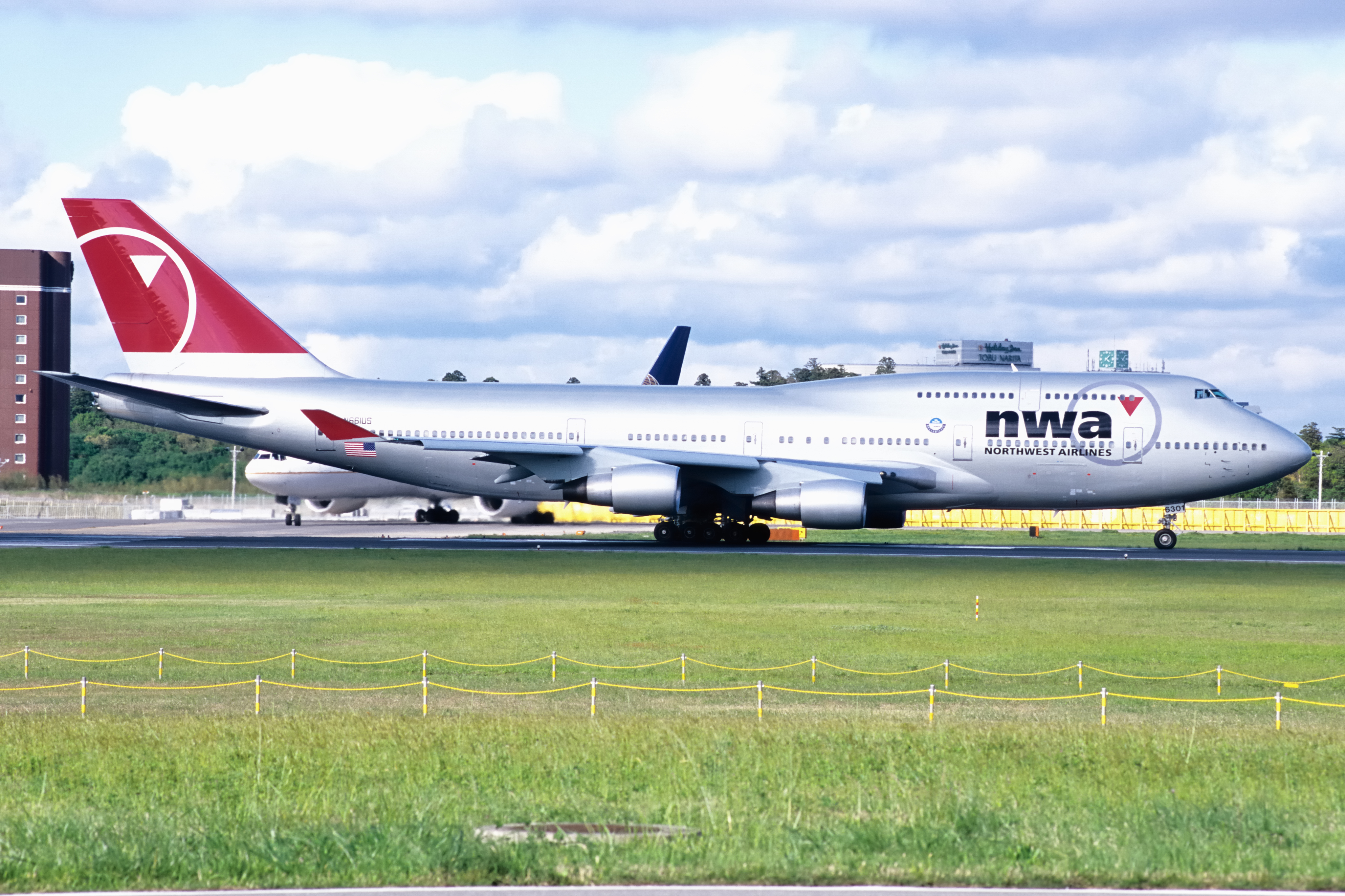 Northwest Airlines Boeing 747-451 (N661US) at Tokyo Narita International Airport